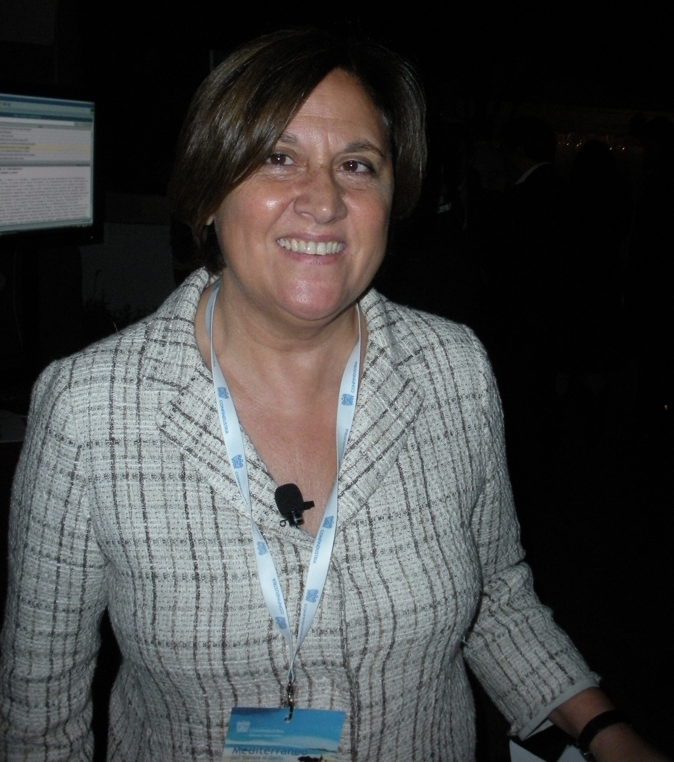 Lucia Annunziata, italian journalist.